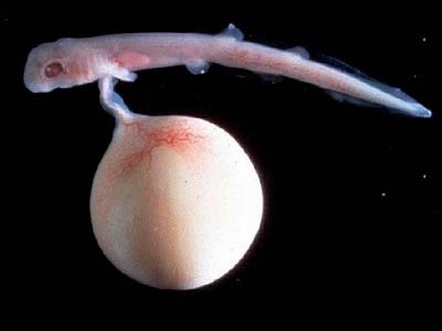 Embryo of a chain catshark (Scyliorhinus retifer) removed from its egg case.